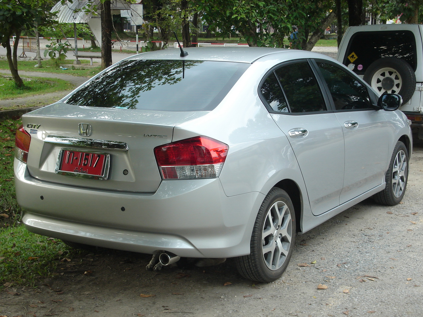 Fifth generation Honda City found in Chiang Mai University